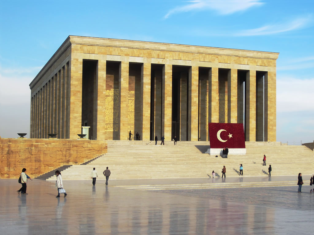 The founder of modern Turkey, Mustafa Kemal Ataturk (1881-1938), lies in the Anıtkabir mausoleum at Ankara.